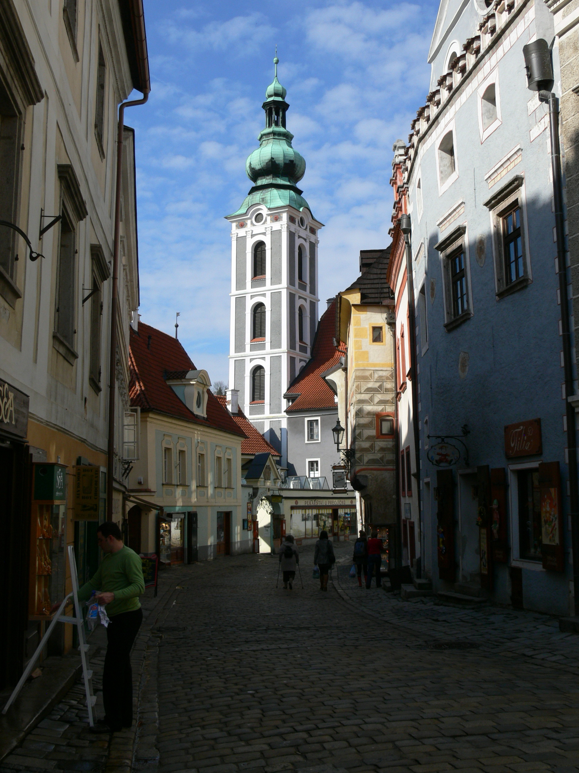 Český Krumlov - Latrán. Mainstreet with tower of Saint Jodokus-church.